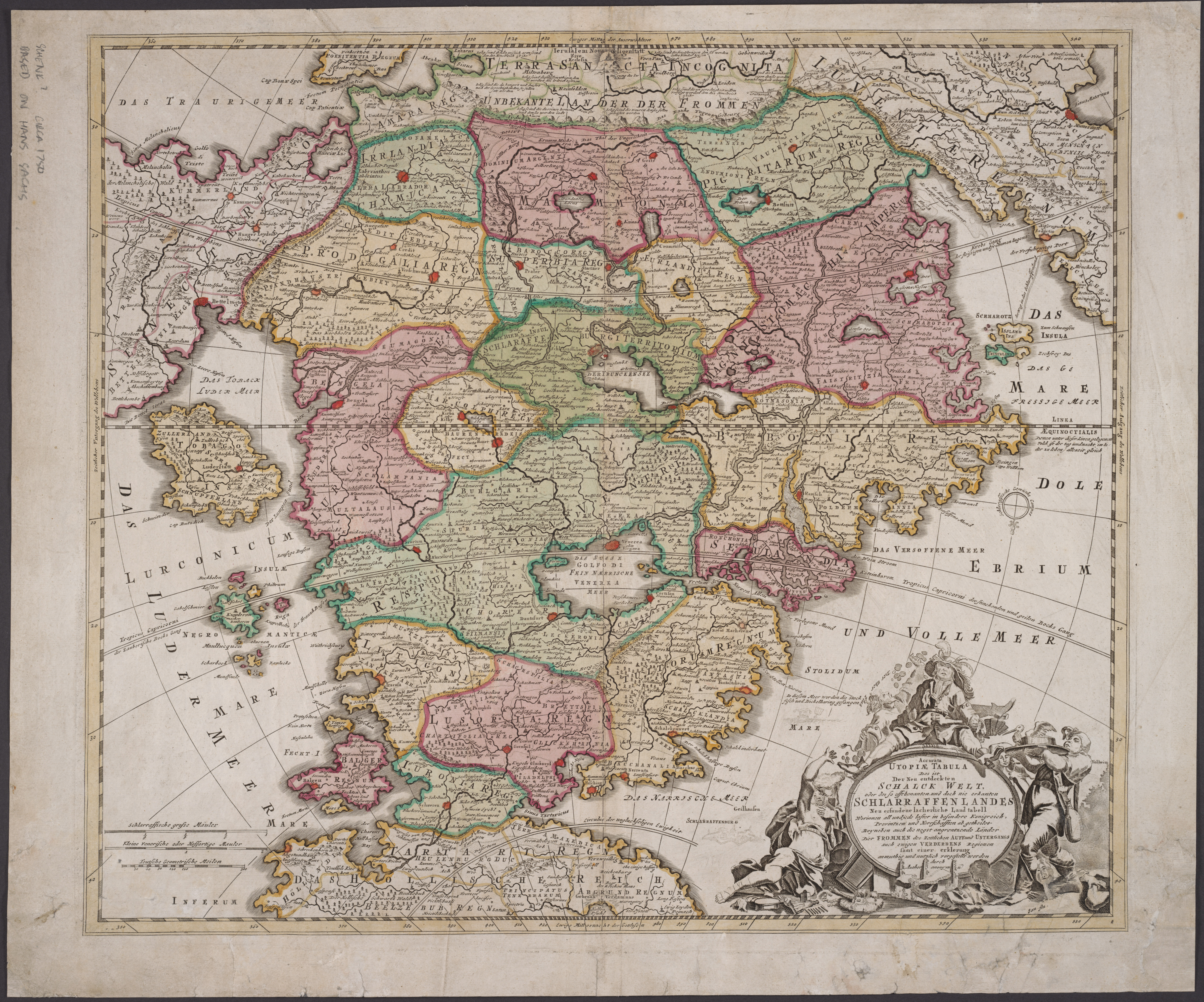 This is the map "Accurata Utopiæ Tabula" (also named "Schlarraffenlandes") designed by Johann Baptist Homann and printed in 1694 (So the first print)